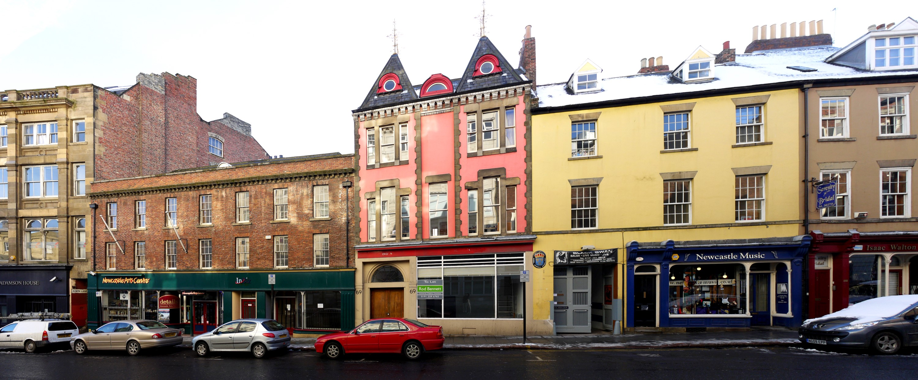 Westgate Road, Data from Geograph: Description: This panorama shows some of the shops along the south side of Westgate Road in the section between Clayton Street and Grainger Street. The flat-roofed, brick building to the left is Newcastle Arts Centre, previously a mid to late... more ICBM: 54.970020678189, -1.6182016751882 Location: (about 2 km from) near to Gateshead, Great Britain.